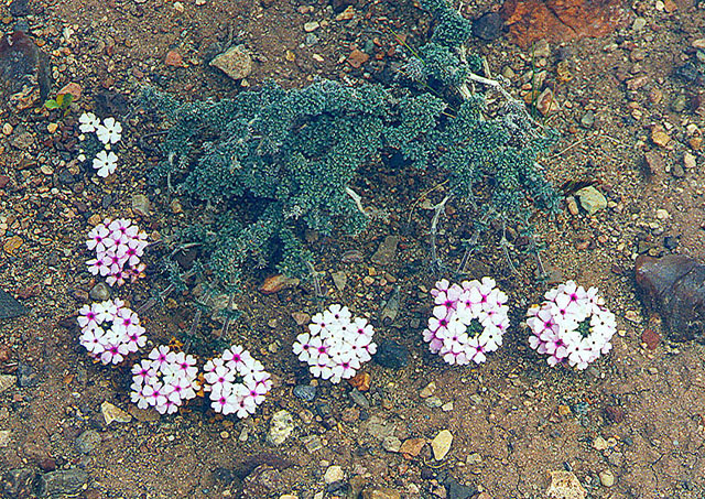 Largely found on the steppes of southern Argentina. In context at